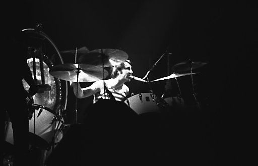 The WHO, Maple Leaf Gardens, Toronto, 10/21/76 Keith Moon singing.